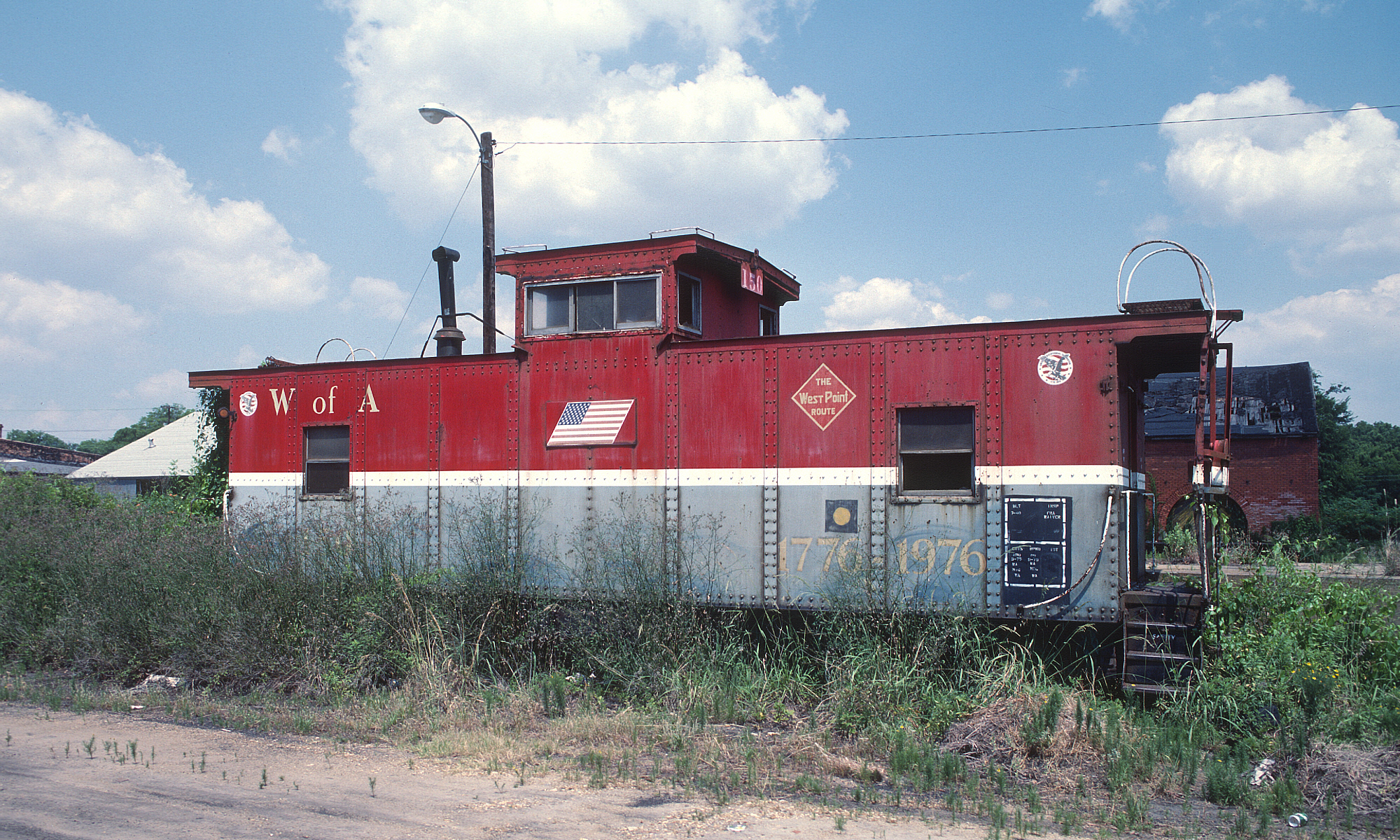 A Roger Puta photograph